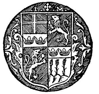 The seal of Johannes Magnus (Johannes Magni. The last catholic archbishop of Sweden)